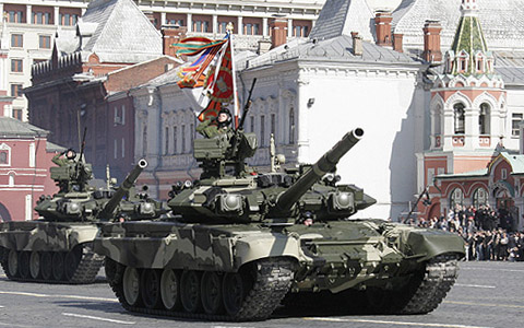 T-90 tank during the Victory Day parade in Moscow in 2009.